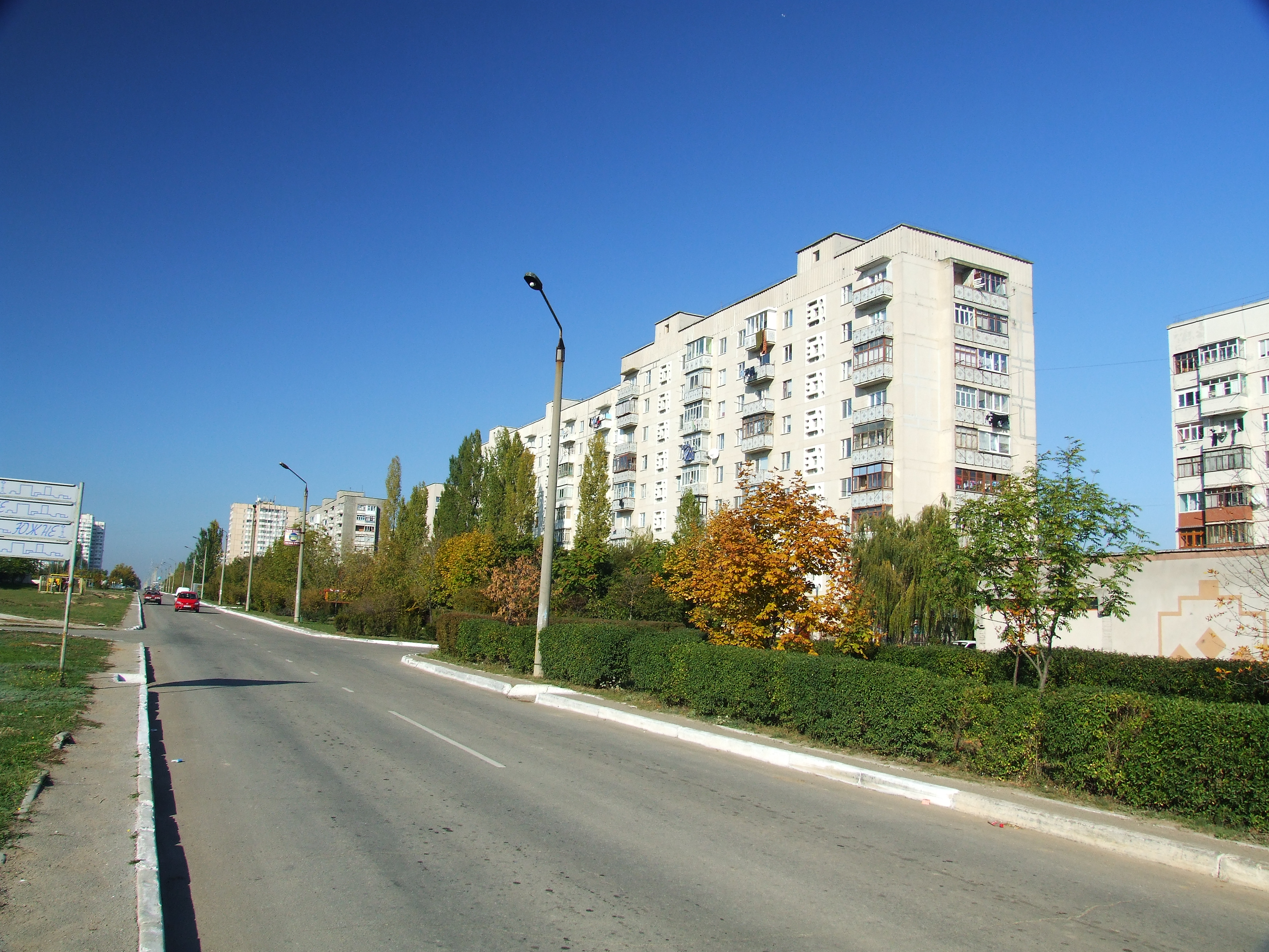 Grygorivskogo desantu street in city of Yuzhne, Odessa Oblast, Ukraine